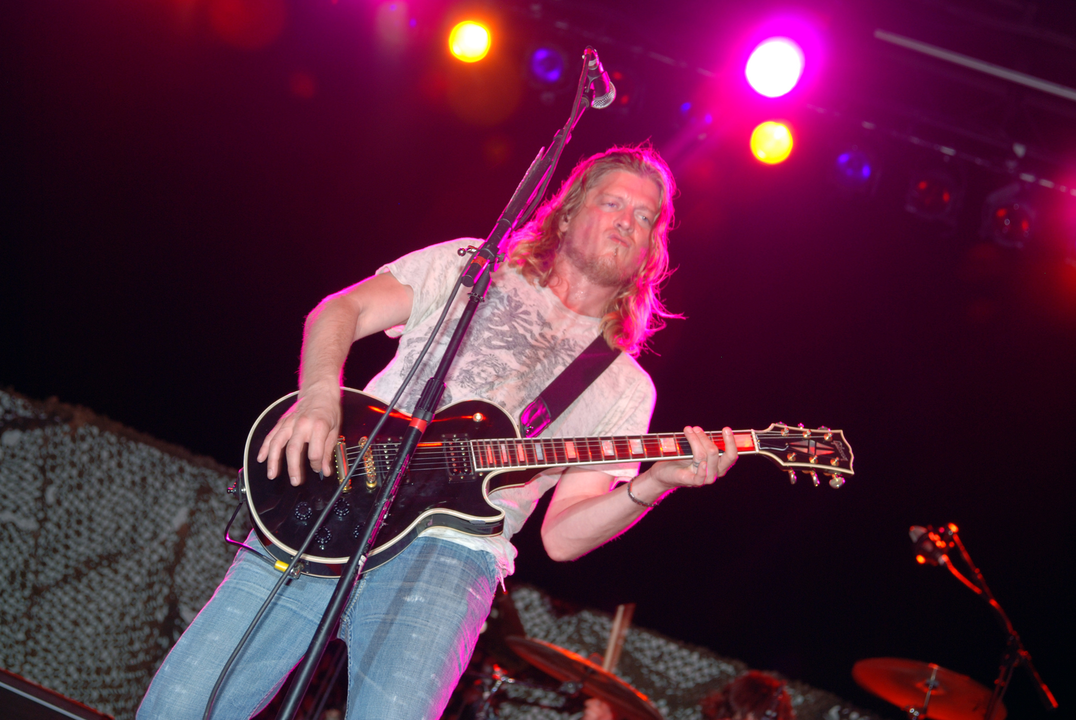 Wes Scantlin, Puddle of Mudd front man, entertains U.S. Naval Station Guantanamo Bay service members and their families during a Memorial Day concert at Ferry Landing, May 25, 2009. Many Joint Task Force Guantanamo service members were able to enjoy the day-long festivities.